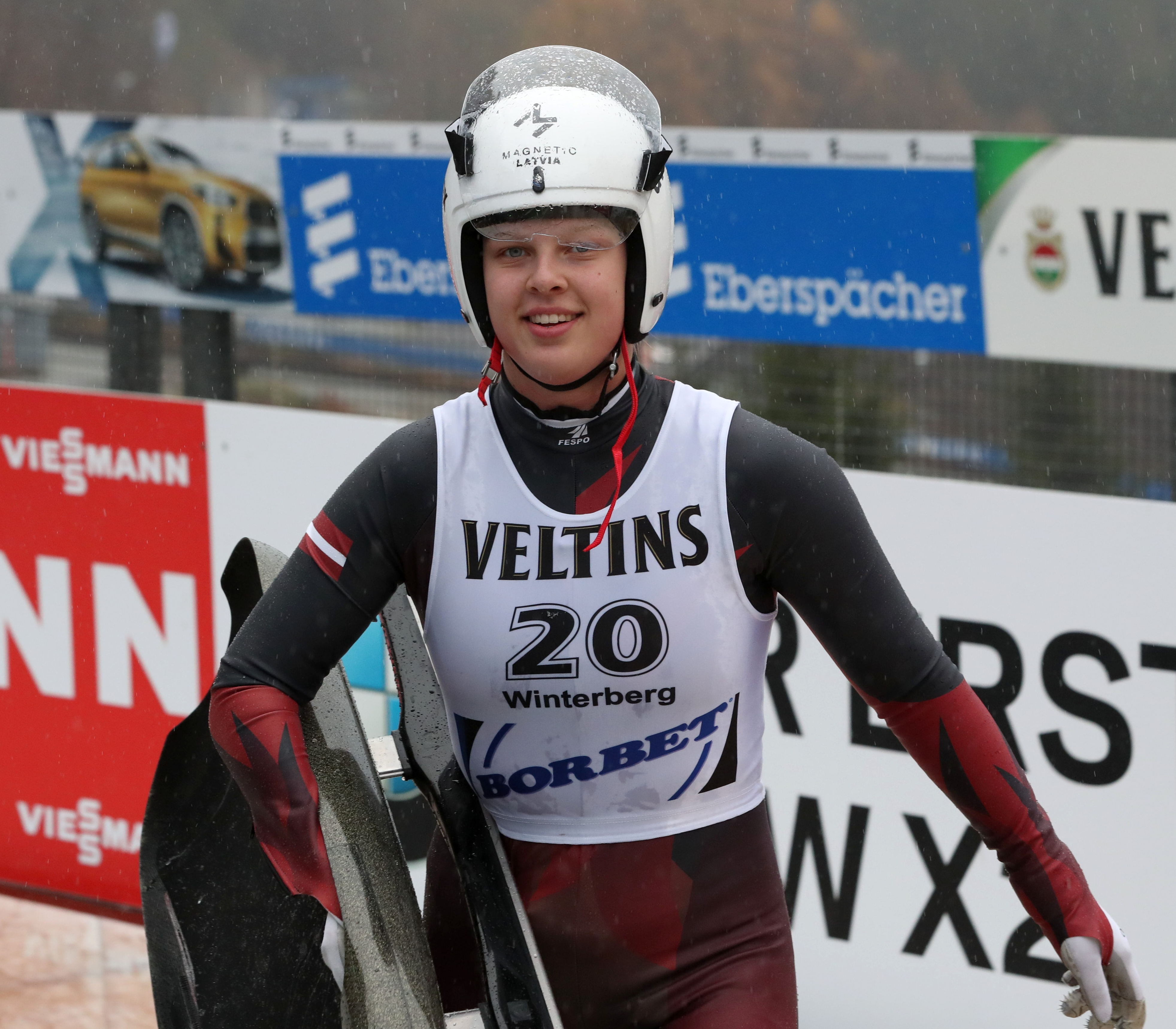 Women´s Nationscup race in Winterberg: Kendija Aparjode